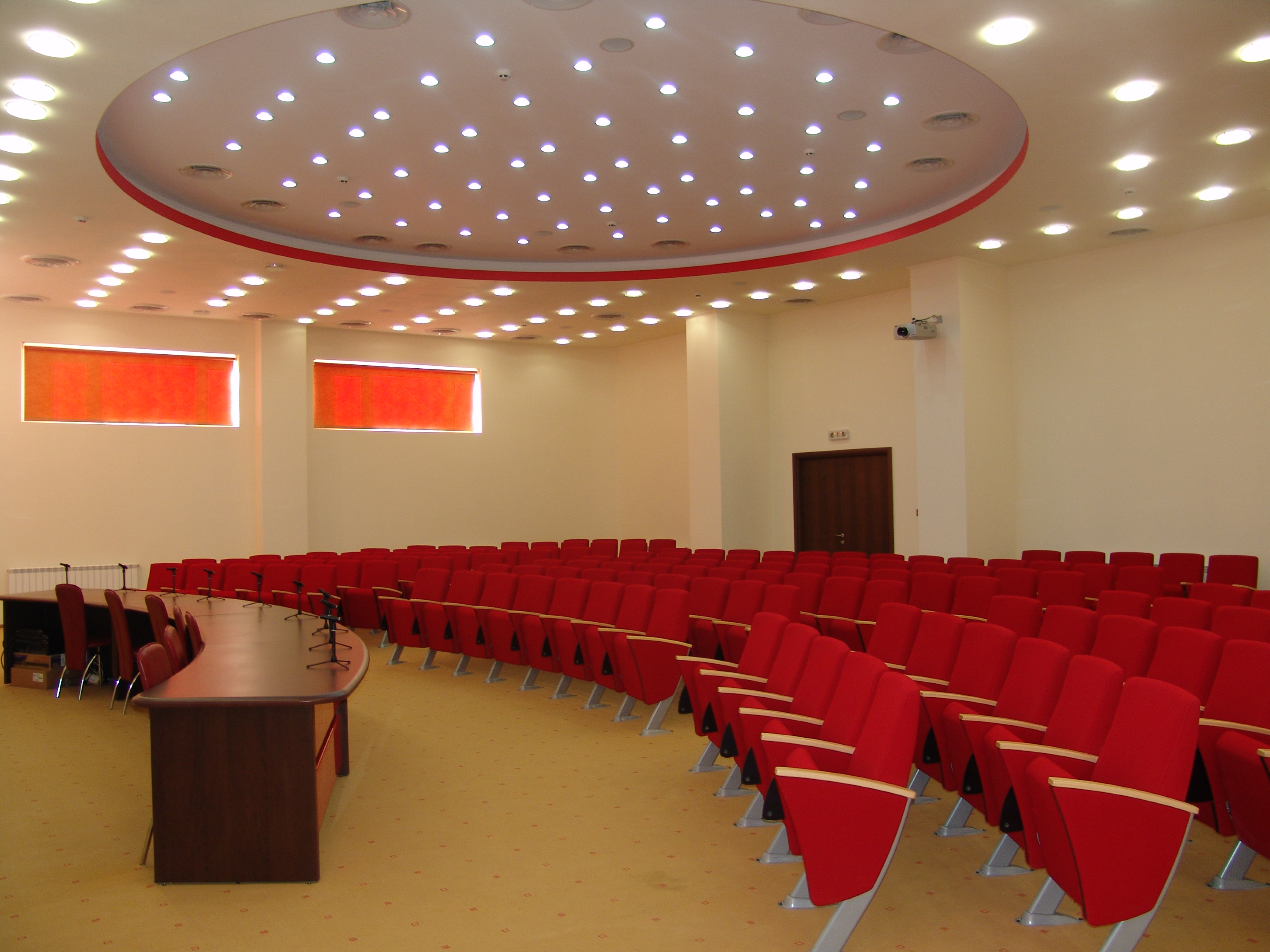 Centrul International de Conferinte - Universitatea Valahia din Targoviste (UVT)